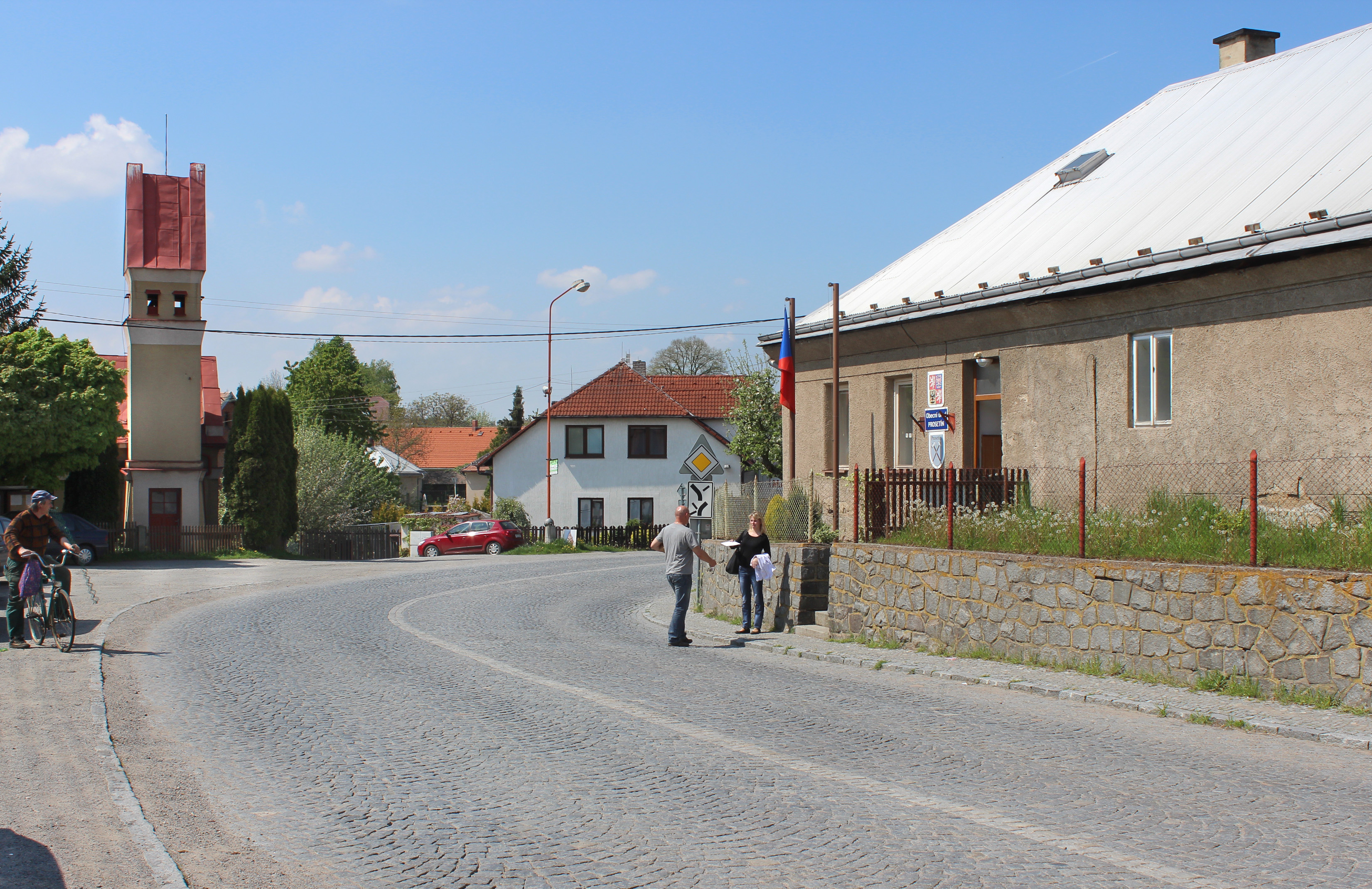 Municipal office in Prosetín, Czech Republic